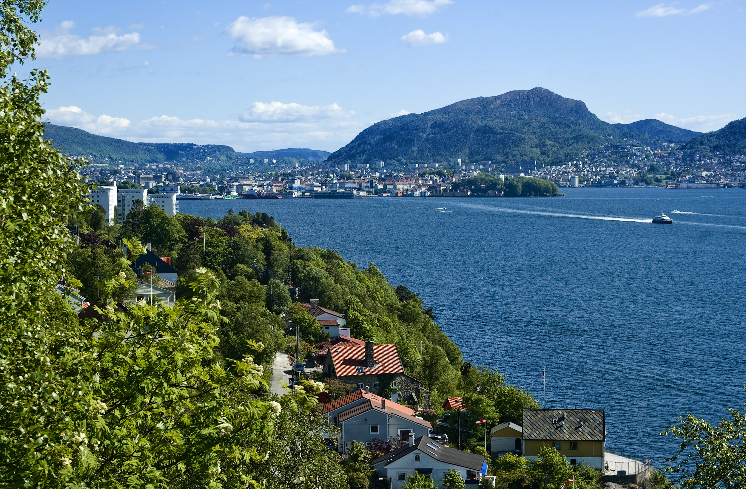 The city centre of Bergen, Norway as seen from the peninsula Eidsvågsneset.